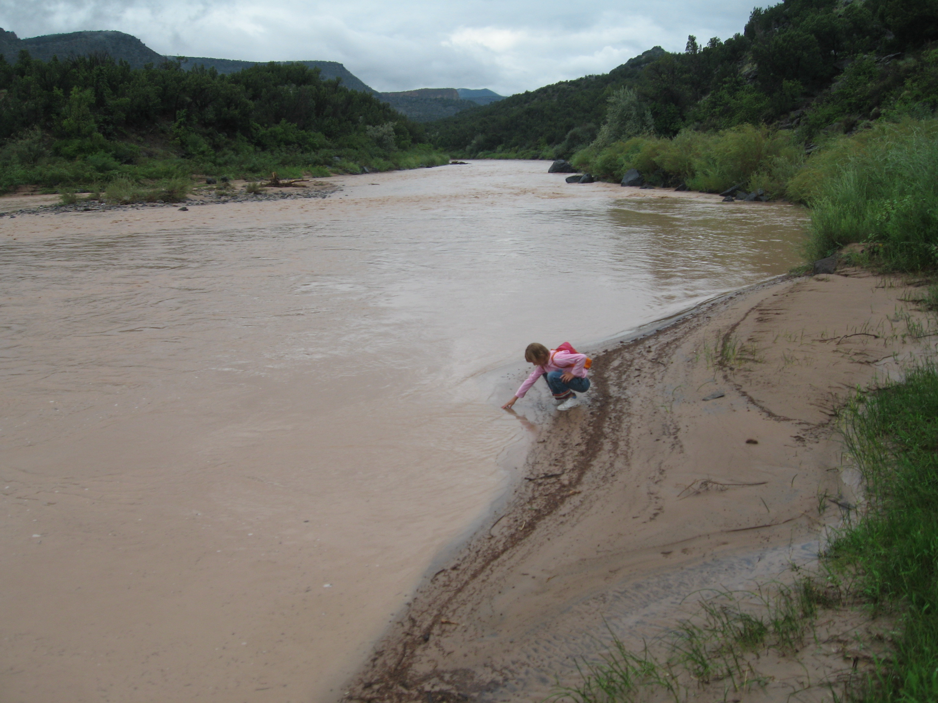 The Rio Grande River after a heavy rain, at the end of the Blue Dot trail from the White Rock Overlook. Raccoon tracks are visible in the right foregrond. This photo was taken on 20 August 2006.